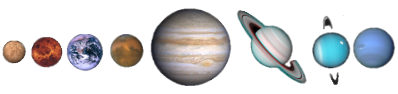 8 clasic solar planets (photos). IAU Resolution about planets Aug-24-2006. The picture doesn`t respect relative size between planets.